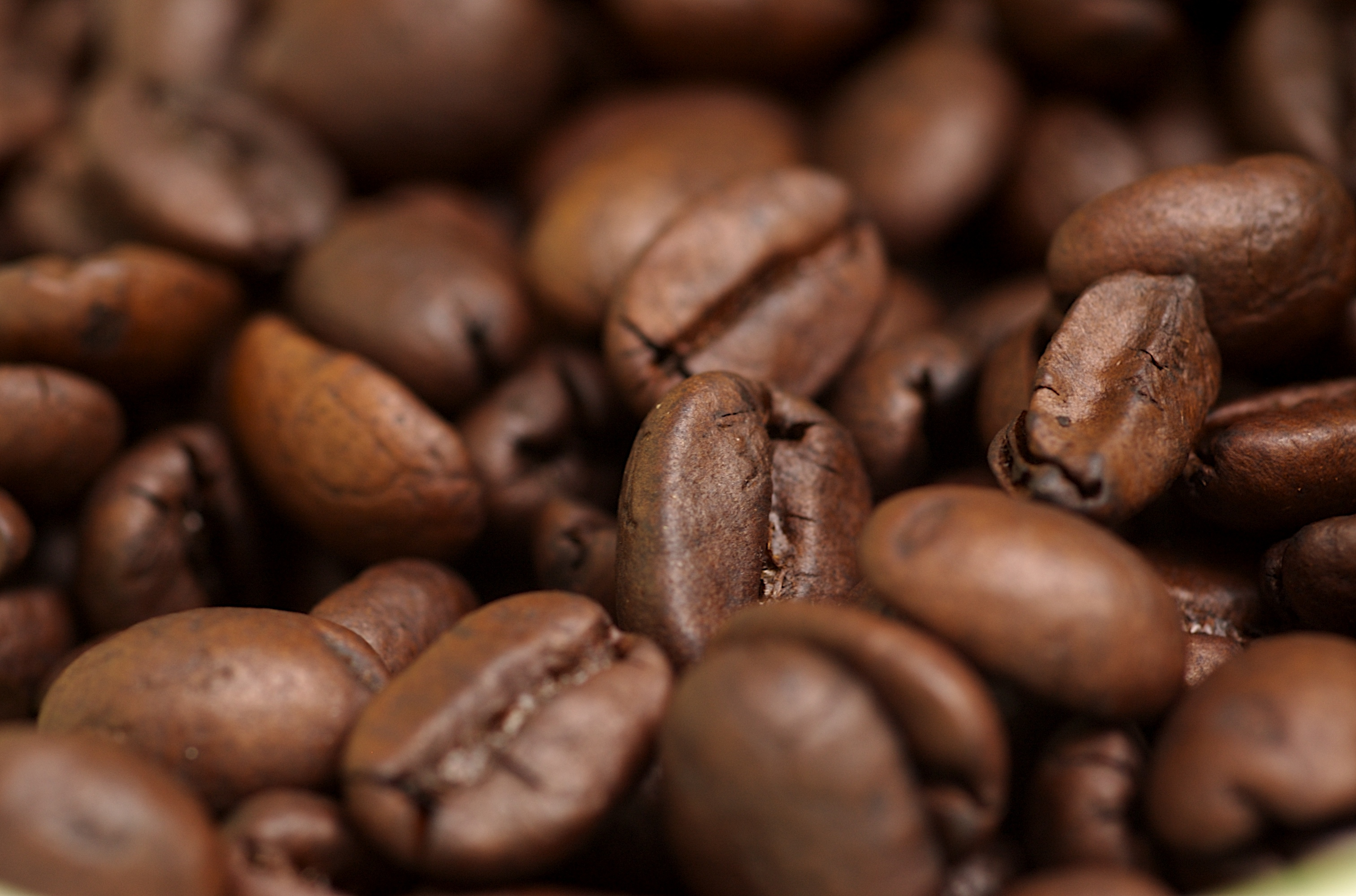 Coffee beans.